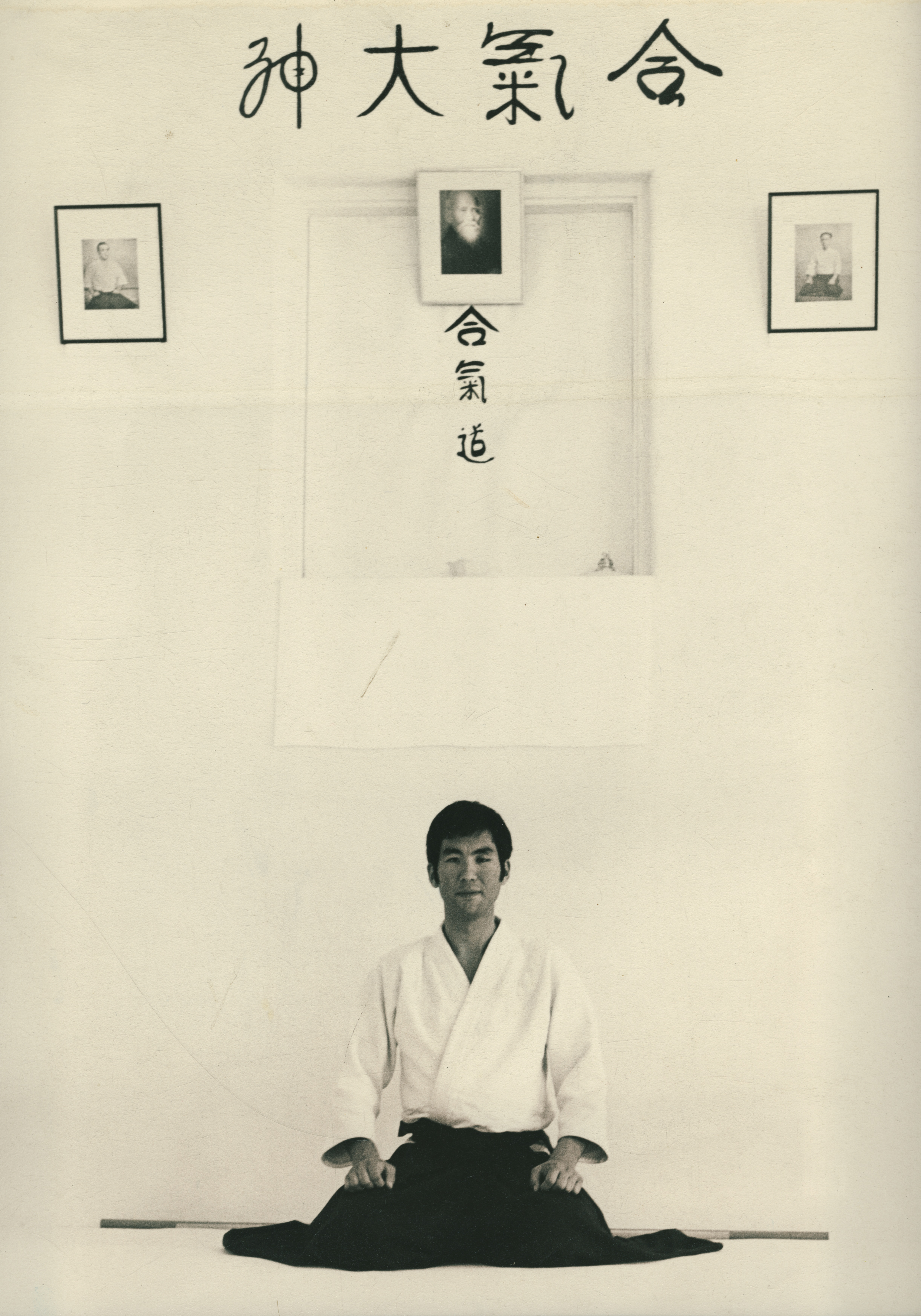 Jon Takagi at his dojo circa 1970